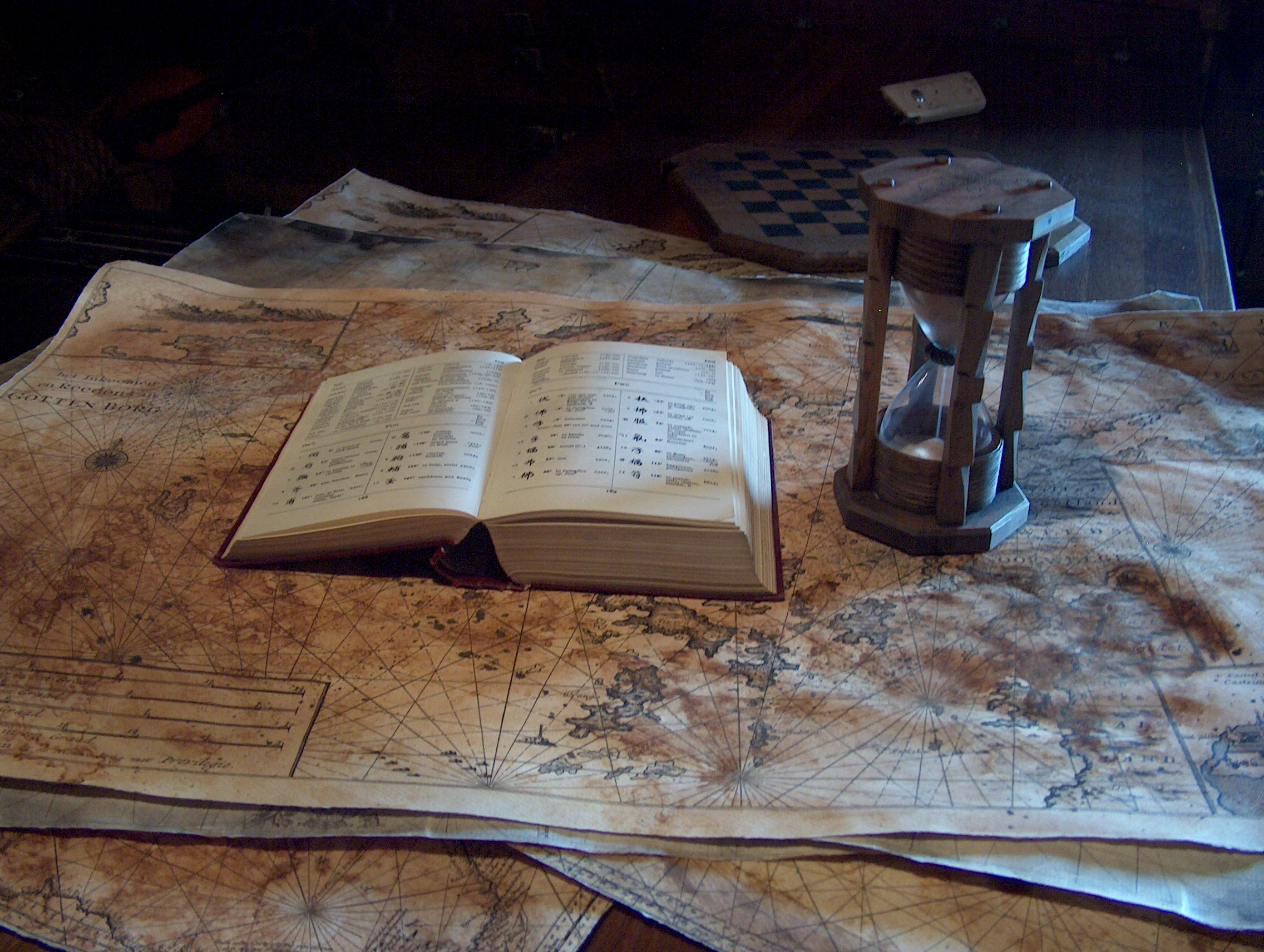 Old things: a map, a book and an hourglass